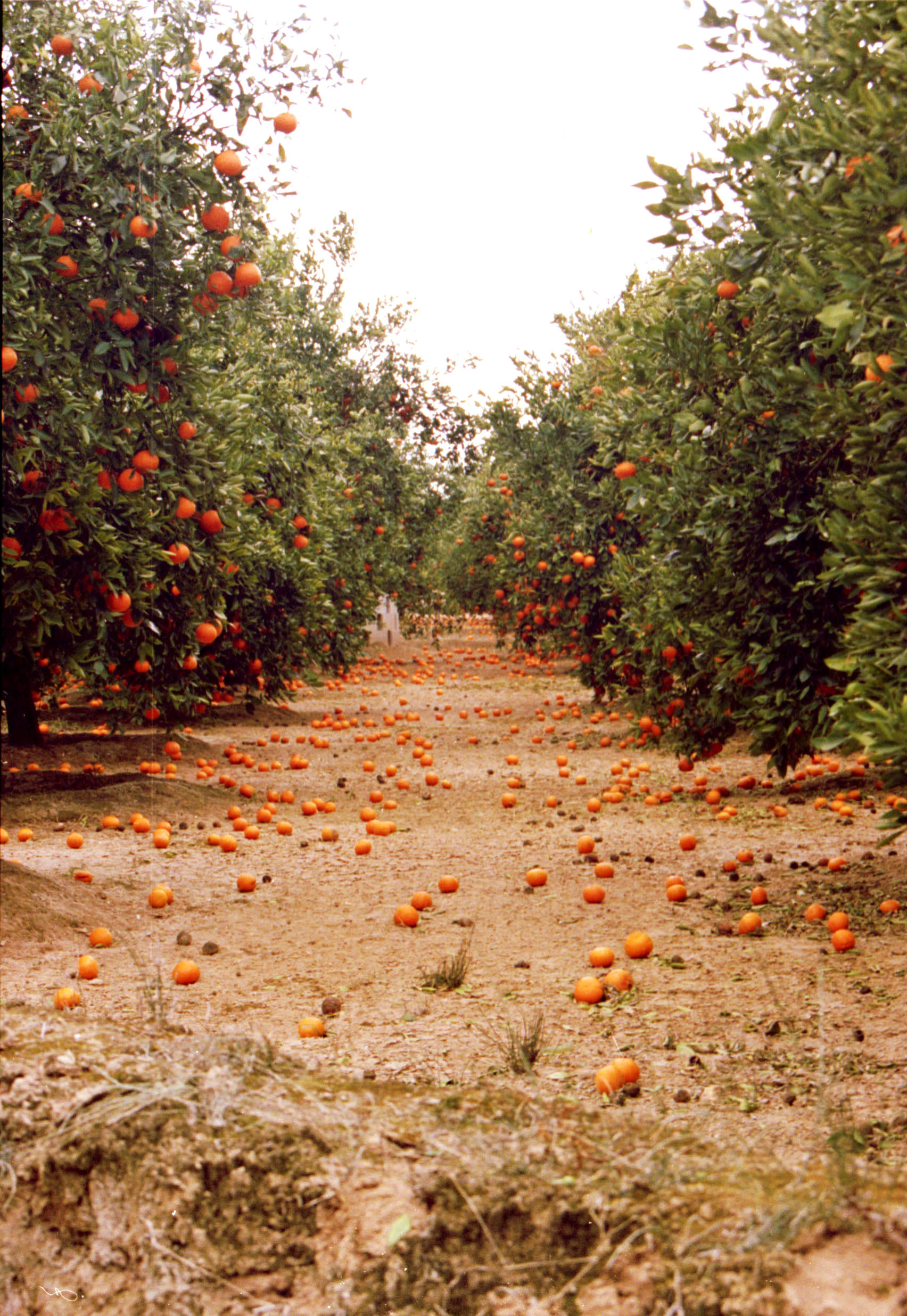 Citrus orchard in the Land of Valencia, southeastern Spain. Oranges in July, 2005.